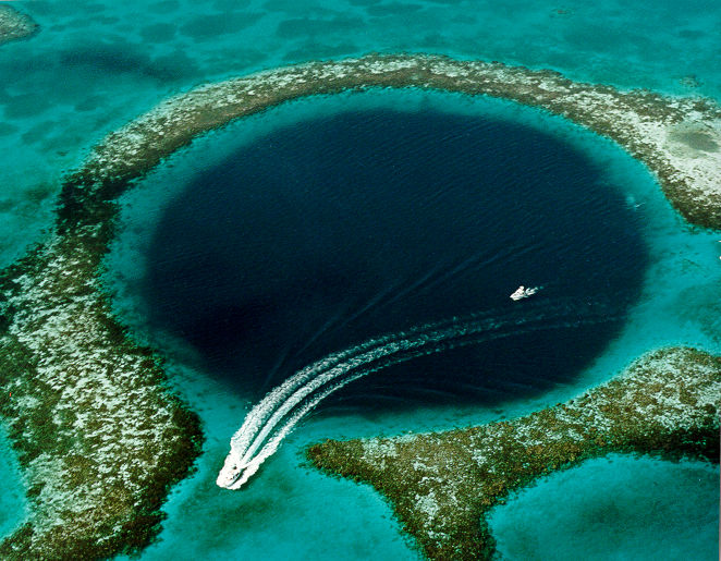 Great Blue Hole, Coast of Belize - a phenomenon of Karst topography.